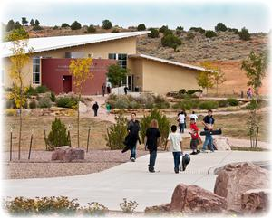 Rehoboth Campus Picture